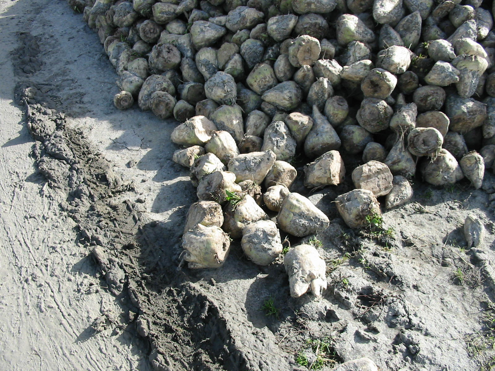 Sugar beets at Renesse, Zeeland.